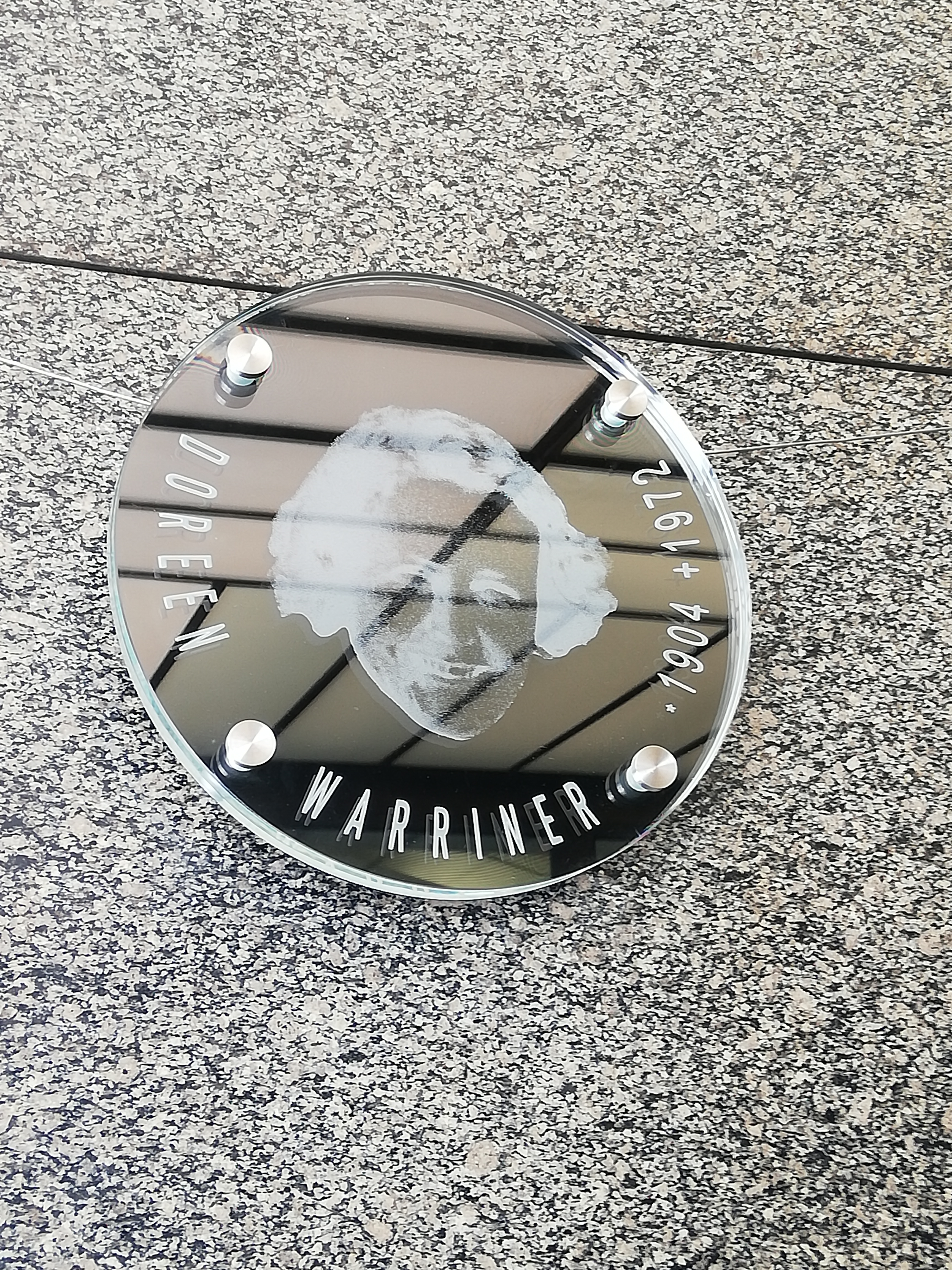 A memorial plaque is commemorating Doreen Warriner (1904 - 1972). Plaque is housed in a public space in Prague, on the external wall of Alcron Hotel (Štěpánská 623/40, 110 00 Prague 1 - Nové Město). The author of the plaque is the Czech architect, actor and writer David Vávra. Mrs. Doreen Warriner (full name: Doreen Agnes Rosemary Julia Warriner) was a British humanitarian worker who initiated and co-organized the rescue transports of people threatened by the Nazi regime in the winter of 1938/1939 in the Czechoslovakia. These rescue operations was also organized by her co-workers: Mrs. Marie Schmolková, Sir Nicholas Winton, Mr. Trevor Chadwick, Mrs. Beatrice Wellington, Mr. Bill Barzetti.